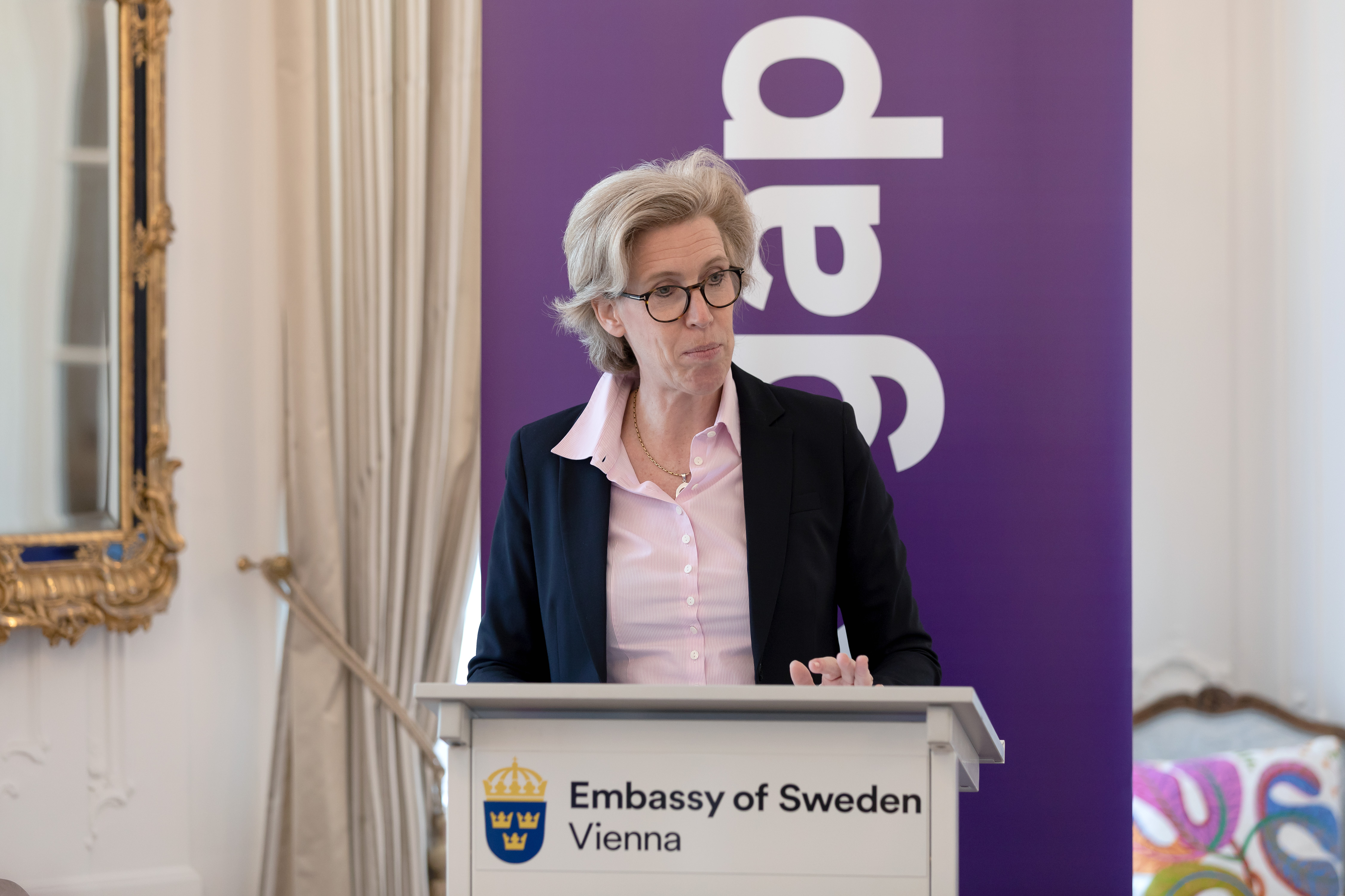 Ambassador Mikaela Kumlin Granit opens a WikiGap event at the Embassy of Sweden in Vienna, Austria; a panel discussion in cooperation with Students Advocating Gender Equality (SAGE) followed by a Wikipedia edit-a-thon with Wikimedia Austria.